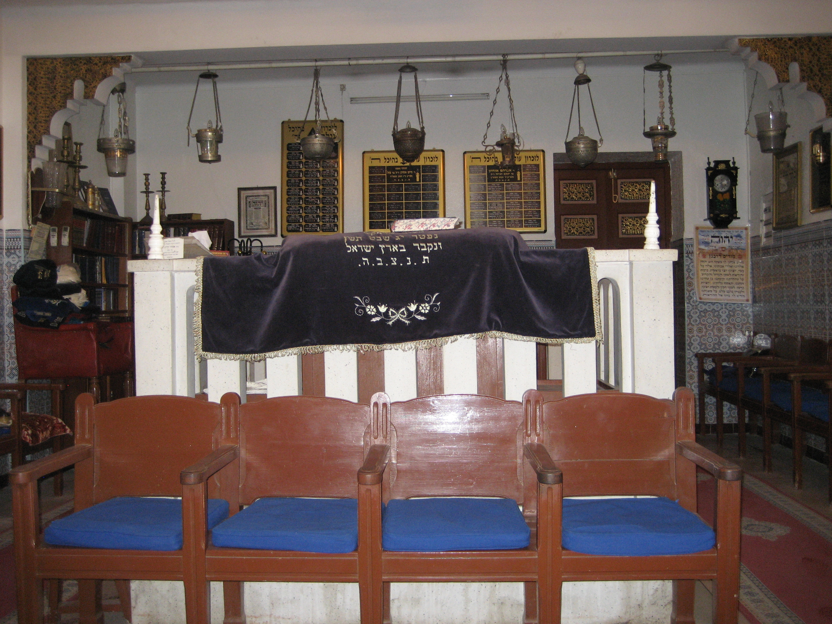 Synagogue in Marrakech (Morocco)